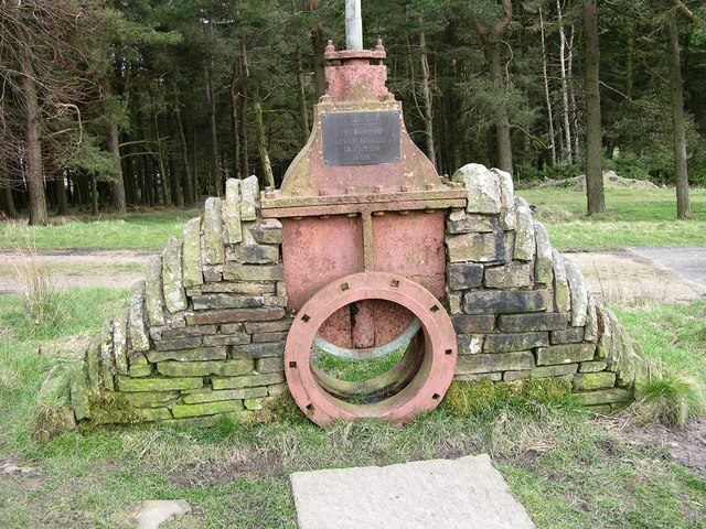 20" gate valve - Calf Hey dam 1856 20" valve originally installed in the dam in 1856.